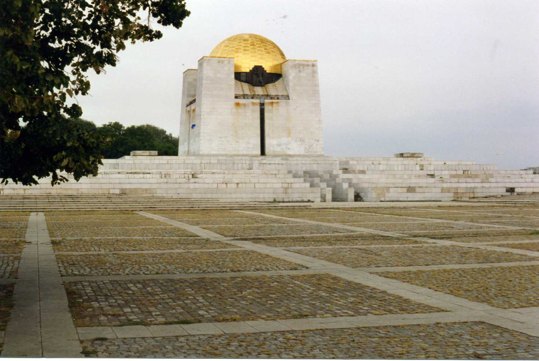 The Pantheon